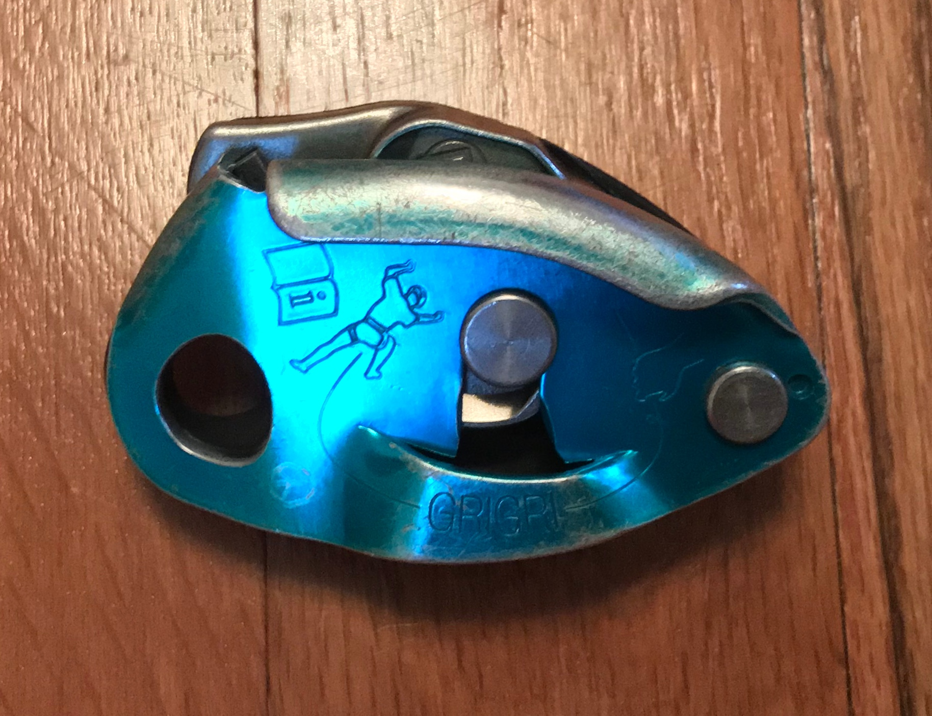 Petzl